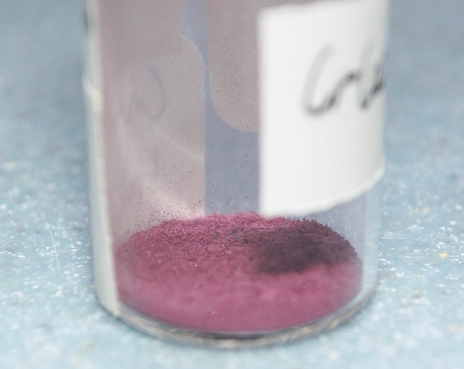 Solid Chromium(III) acetylacetonate [Cr(acac)]3